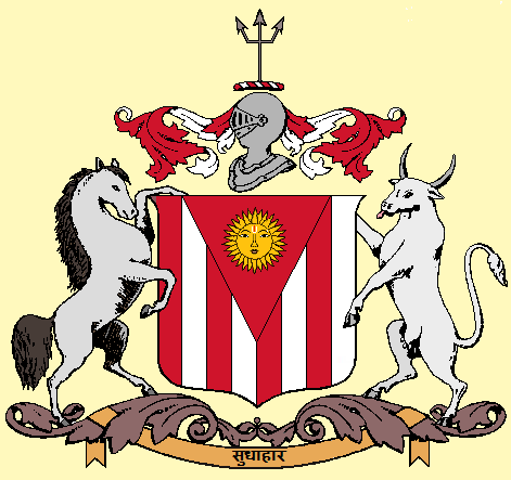 Pratapgarh State Coat of Arms This work is in the public domain in India because its term of copyright has expired. The Indian Copyright Act applies in India, to works first published in India. According to The Indian Copyright Act, 1957 (Chapter V Section 25), Anonymous works, photographs, cinematographic works, sound recordings, government works, and works of corporate authorship or of international organizations enter the public domain 60 years after the date on which they were first published, counted from the beginning of the following calendar year (ie. as of 2016, works published prior to 1 January 1956 are considered public domain). Posthumous works (other than those above) enter the public domain after 60 years from publication date. Any other kind of work enters the public domain 60 years after the author's death. Text of laws, judicial opinions, and other government reports are free from copyright. Photographs created before 1958 are in the public domain 50 years after creation, as per the Copyright Act 1911. This file may not be in the public domain outside India. The creator and year of publication are essential information and must be provided. See Wikipedia:Public domain and Wikipedia:Copyrights for more details. This image shows a flag, a coat of arms, a seal or some other official insignia. The use of such symbols is restricted in many countries. These restrictions are independent of the copyright status.